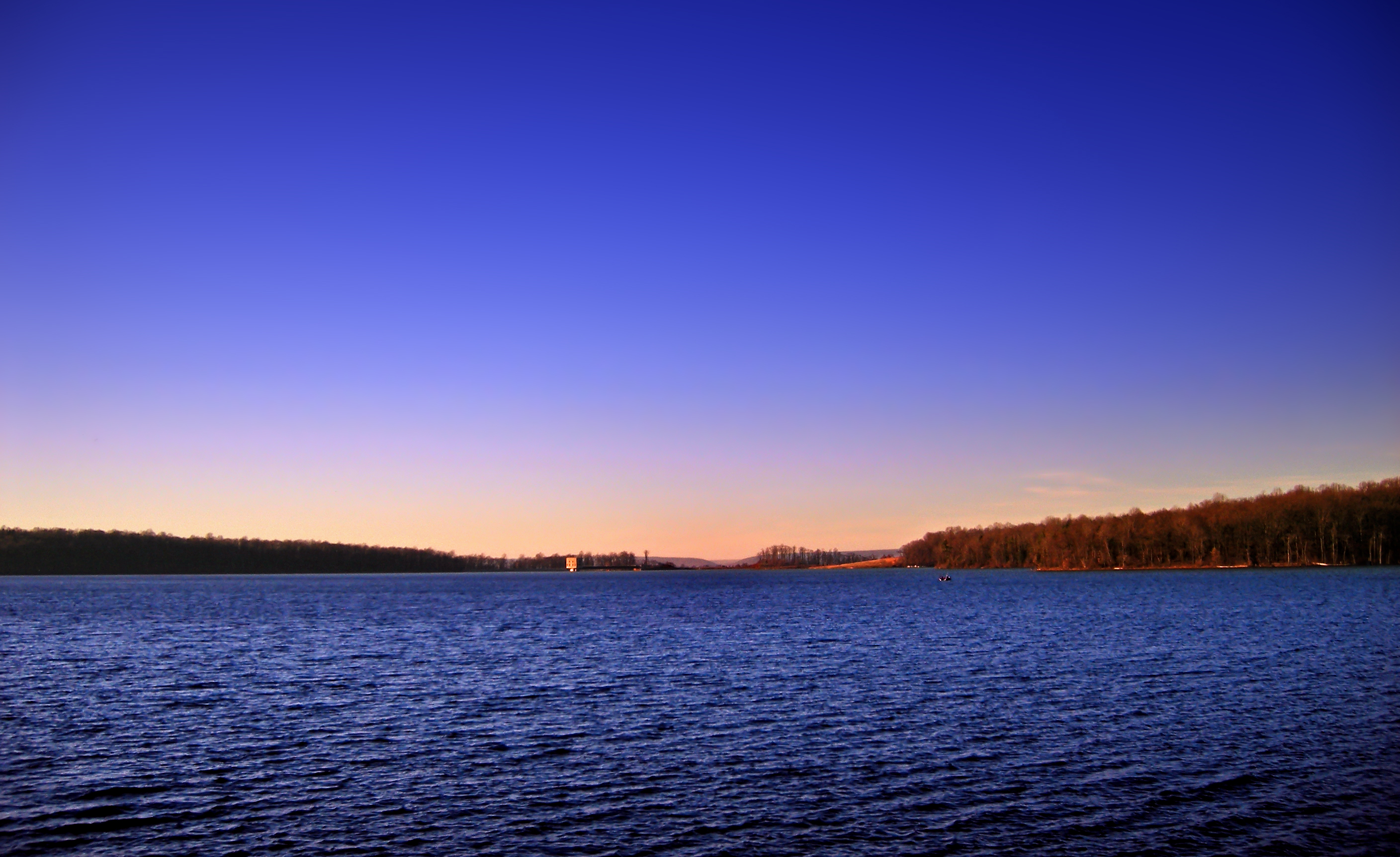 Merrill Creek Reservoir — at dusk in the autumn. Located in Warren County, New Jersey.